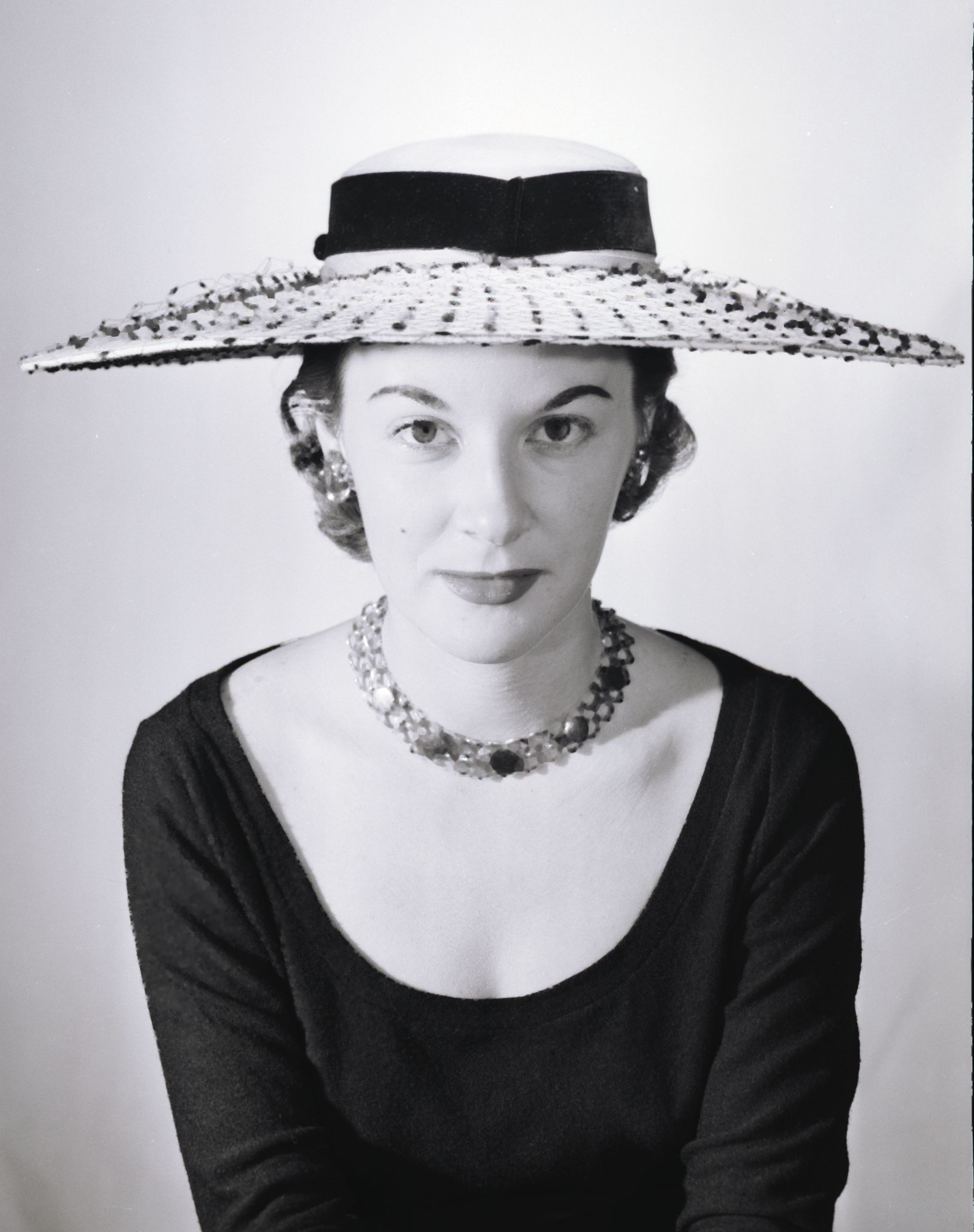 This photo is part of the Australian National Maritime Museum’s Gervais Purcell collection. Gervais Purcell (1919-1999) was a respected Australian commercial photographer who worked from the 1940s with retailers like David Jones and Hordern Bros, radio technology manufacturer Amalgamated Wireless Australasia (AWA), swimwear manufacturer Jantzen, tourism operator Ansett Airways, and cruise ship operators P&O. Gervais’ camera and some of his swimwear fashion photographs were featured in the popular ANMM travelling exhibition Exposed! the story of swimwear of 2009. The photos in this collection are a part of the 3000 images gifted to the Museum by Gervais’ son Leigh Purcell in 2012. If reproduced or distributed, this image should be clearly attributed to the collection of the Australian National Maritime Museum; and not be used for any commercial or for-profit purposes without the permission of the museum. For more information see our Flickr Commons Rights Statement. The Australian National Maritime Museum undertakes research and accepts public comments that enhance the information we hold about images in our collection. If you can identify a person or fashion design, write the details in the Comments box below. Thank you for helping caption this important historical image. Object number: ANMS-1405[215]